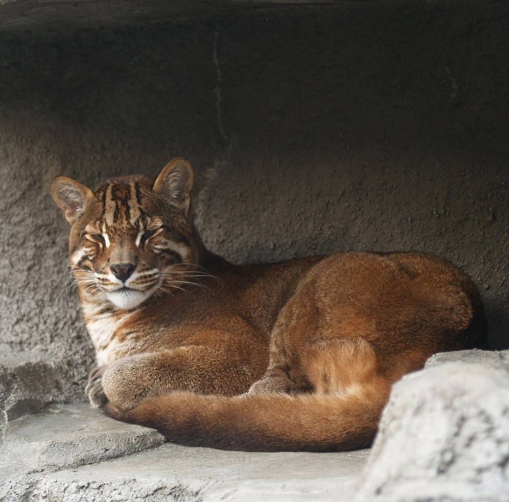 Asiatic Golden Cat